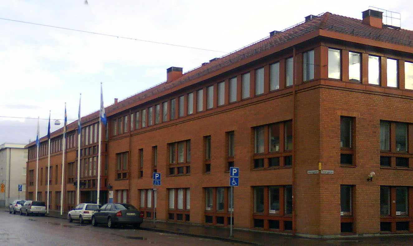 The city hall of Lidköping